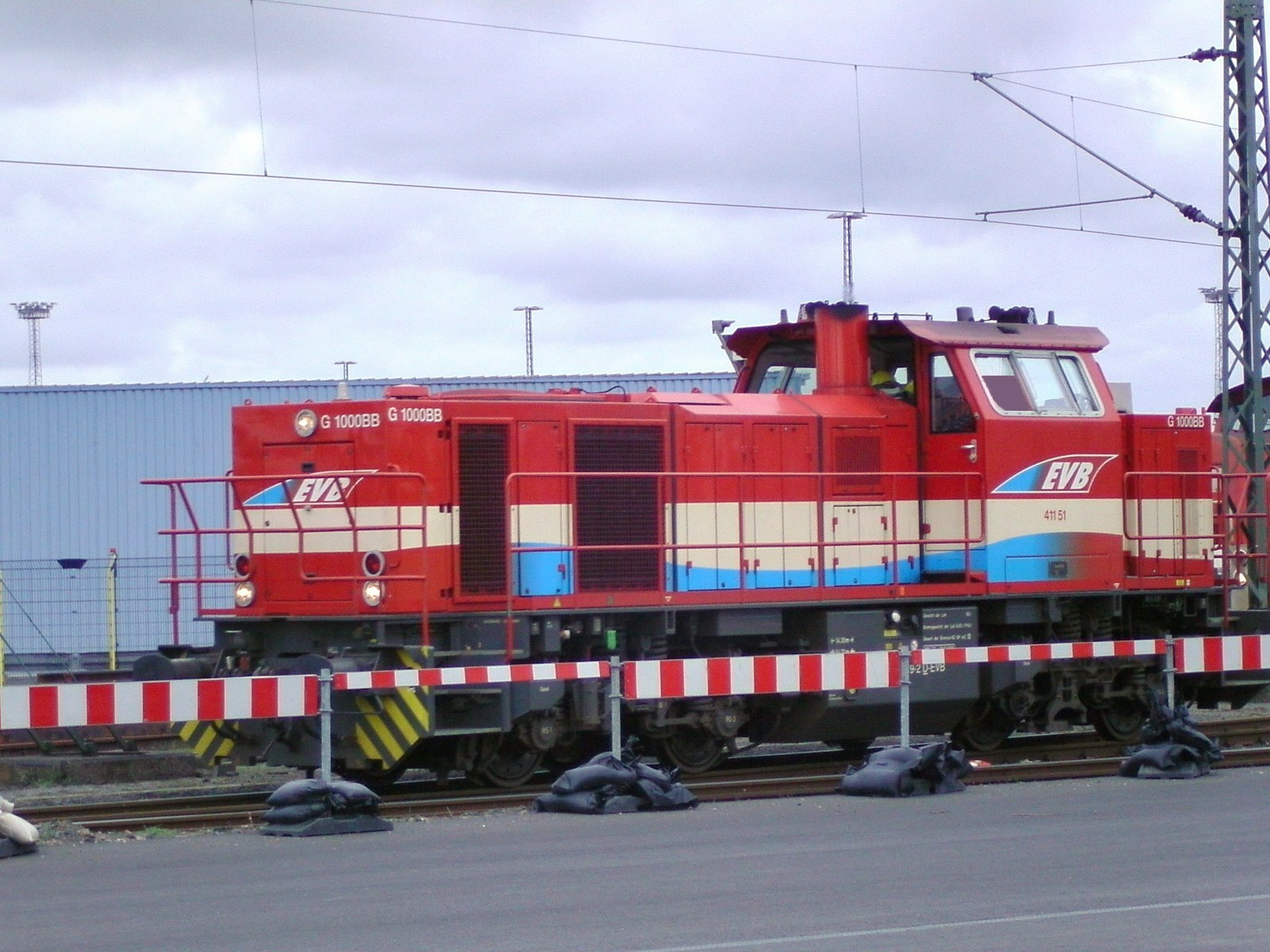 A Vossloh G 1000 BB shunting locomotive of EVB